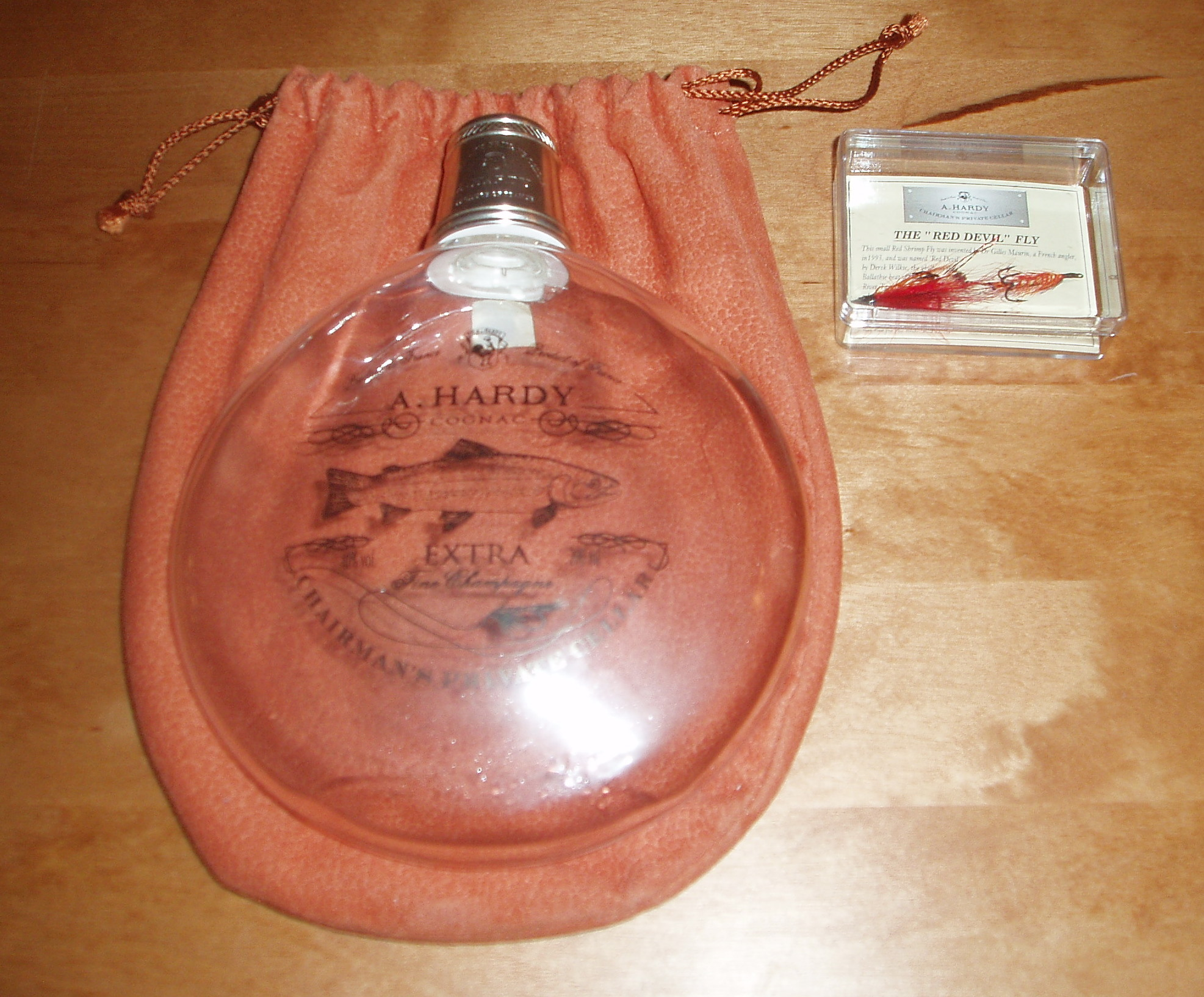 Hardy's Fisherman's Private Cellar, a set containing Hardy's Extra cognac, a small flask with a leather pouch, and a fishing fly.